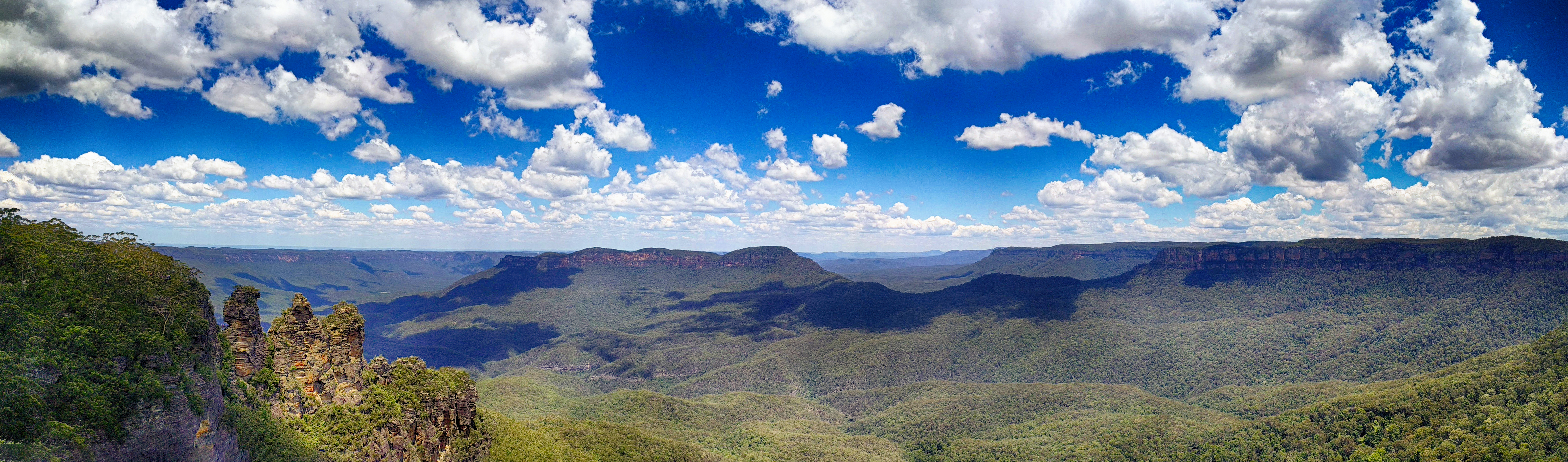 The Blue Mountains are a mountainous region and a mountain range located in New South Wales, Australia. View of Jamison Valley from north escarpment, outside Katoomba city. Three Sisters far left; Mount Solitary left of centre; Narrowneck Plateau, far right.